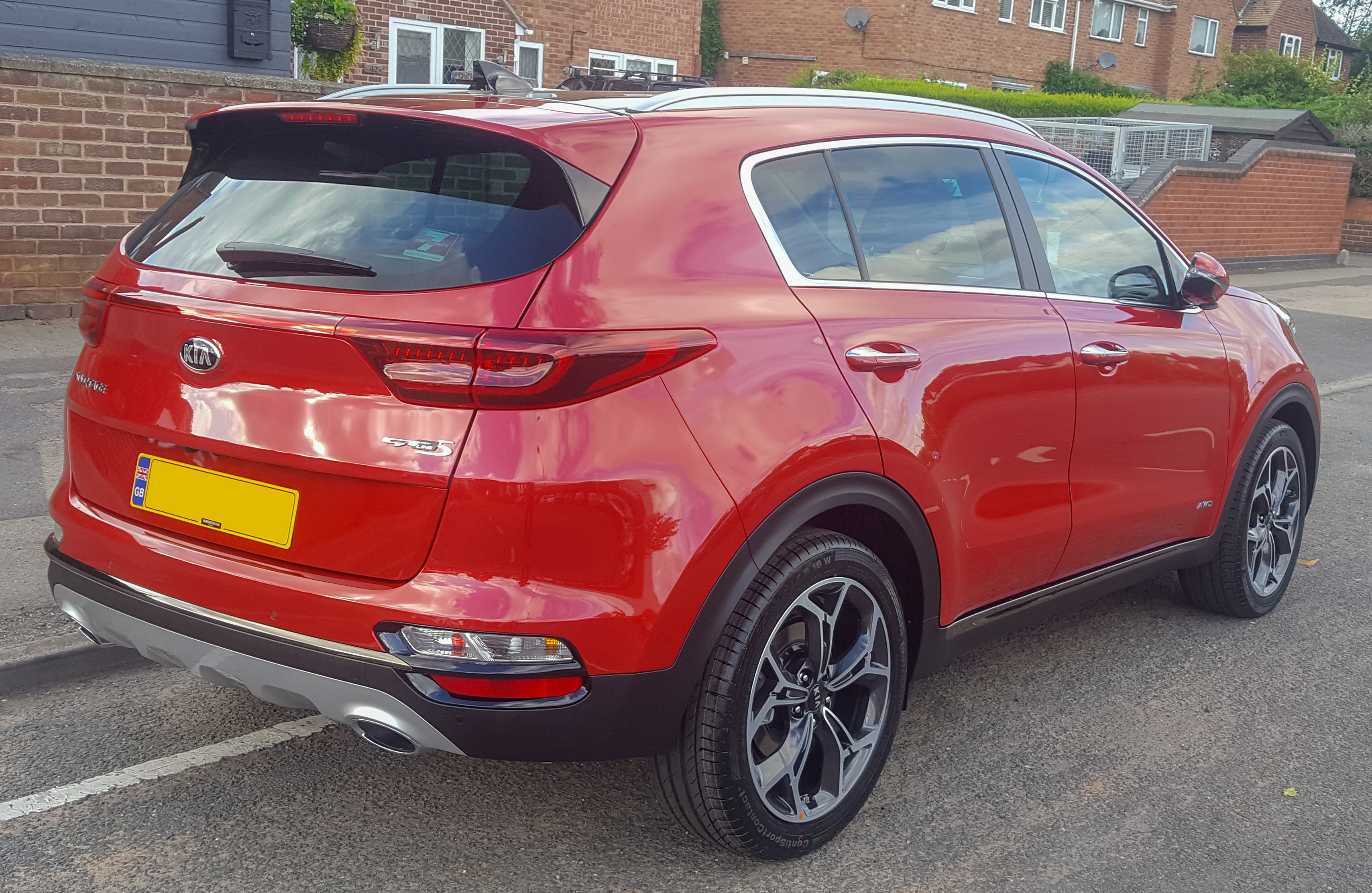 2018 Kia Sportage GT-Line S facelift Rear Taken in Warwick